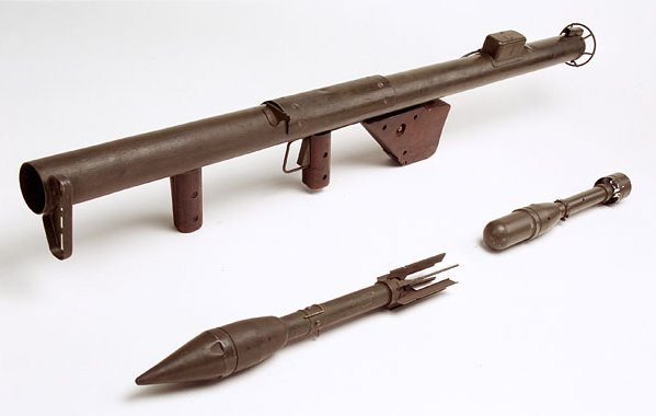 SI Neg. 2004-29586.15. Date: na....M1 Rocket Launcher, 60 mm, known as a "Bazooka"..Credit: Hugh Talman (Smithsonian Institution)